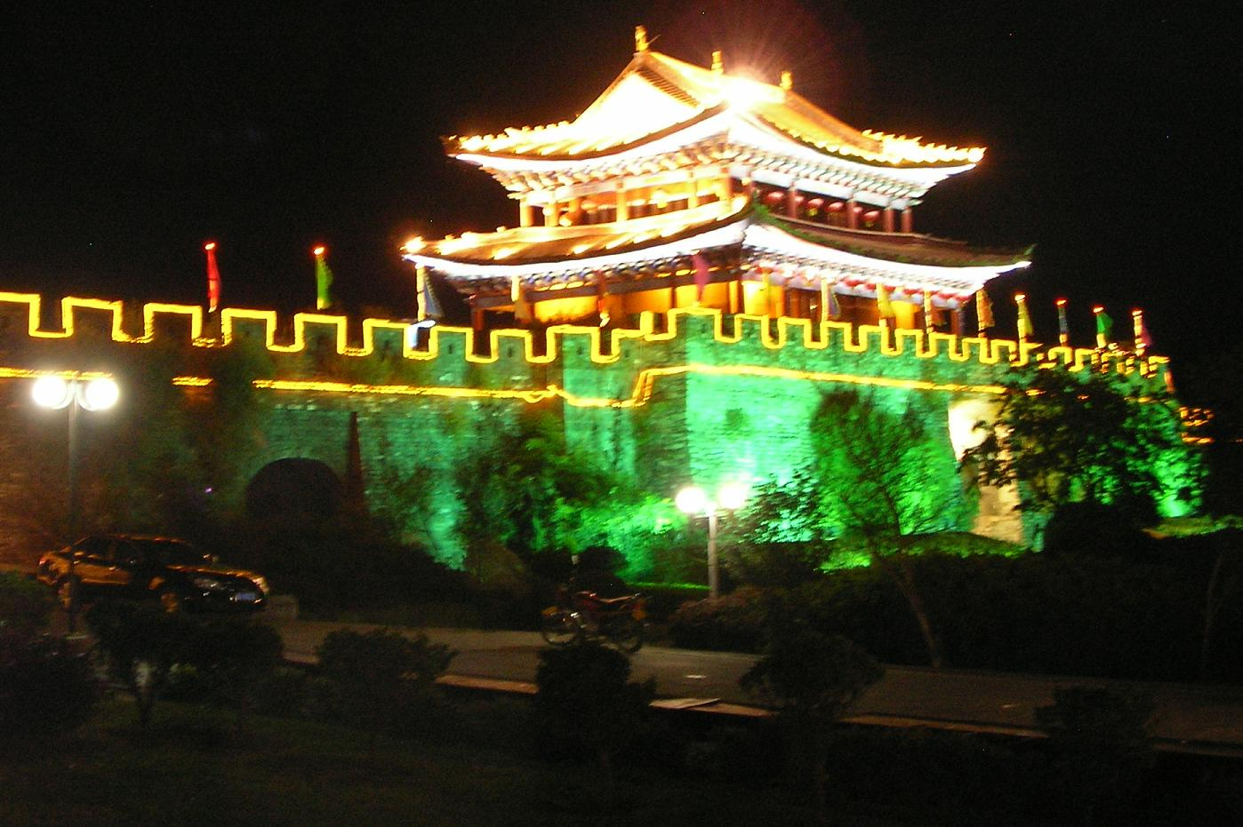 View of Old City walls including the south gate in Dali, Yunnan province, China. Altimeter 2031 meters.